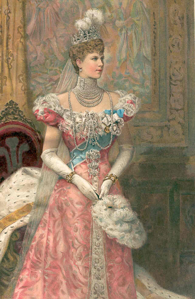 This is a chromolithograph of Queen Mary (at the time known as the Princess of Wales). It was published in the "The Illustrated London News Record of THE CORONATION Service and Ceremony" published on June 26 1902).